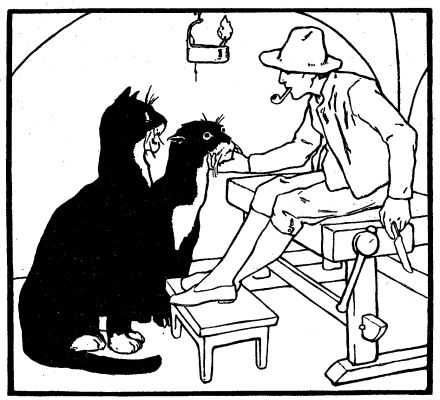 Illustration by Otto Ubbelohde to the fairy tale The Story of the Youth Who Went Forth to Learn What Fear Was